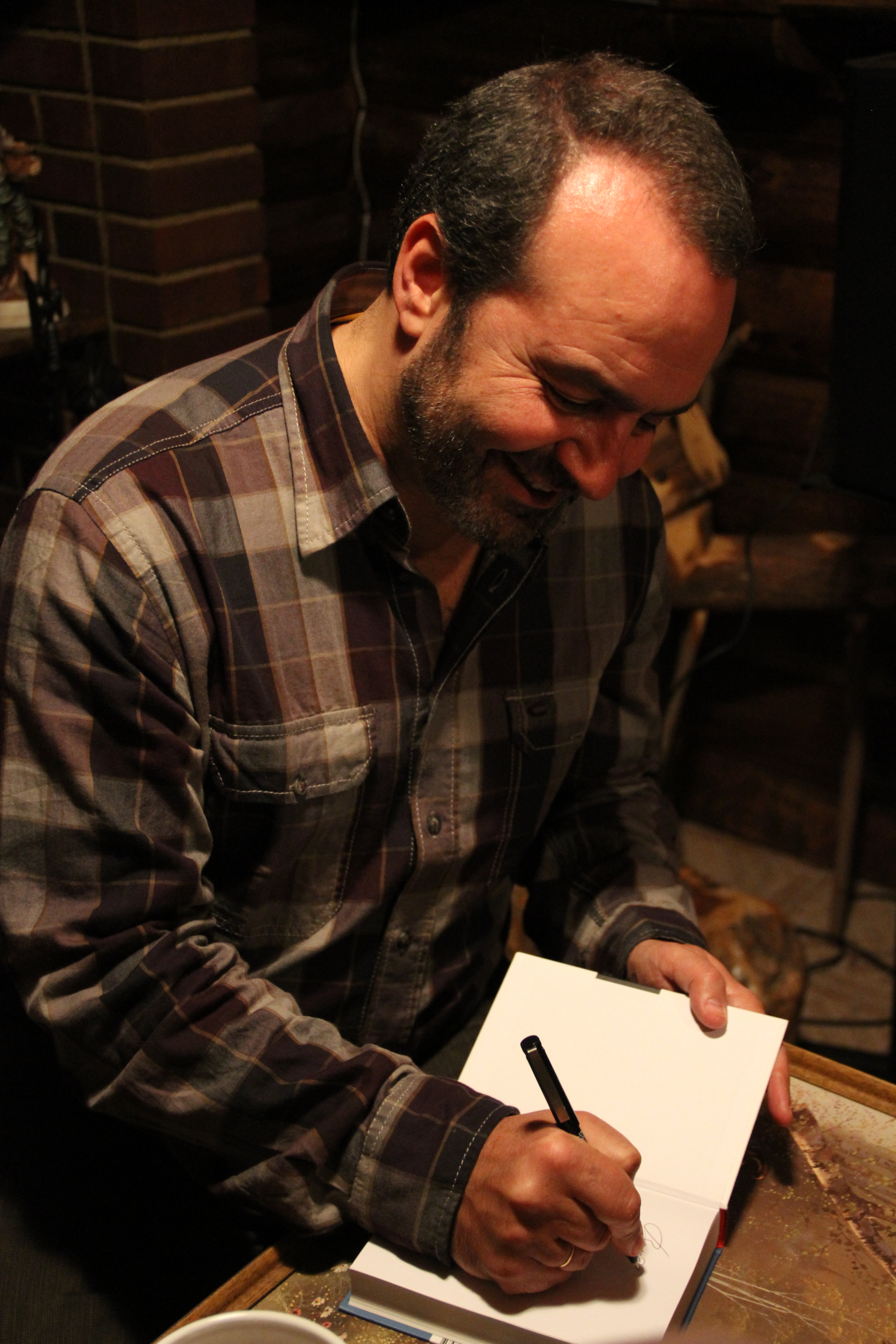 Victor Shenderovich